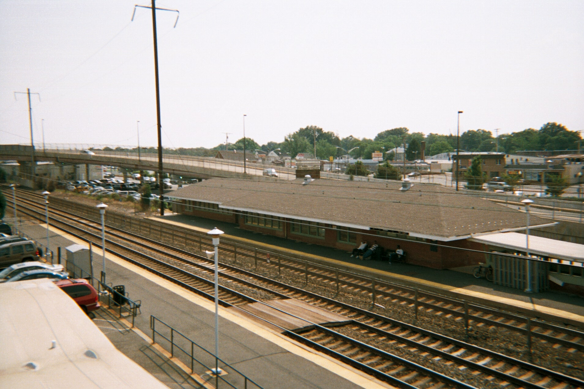 Image of the Aberdeen (Amtrak station), which also serves the MARC Penn Line. The station house was apparently built by the Pennsylvania Railroad and looks like it was made in the 1960's. The road rising over the parking lot and tracks in the background is the Aberdeen Boulevard Bridge.